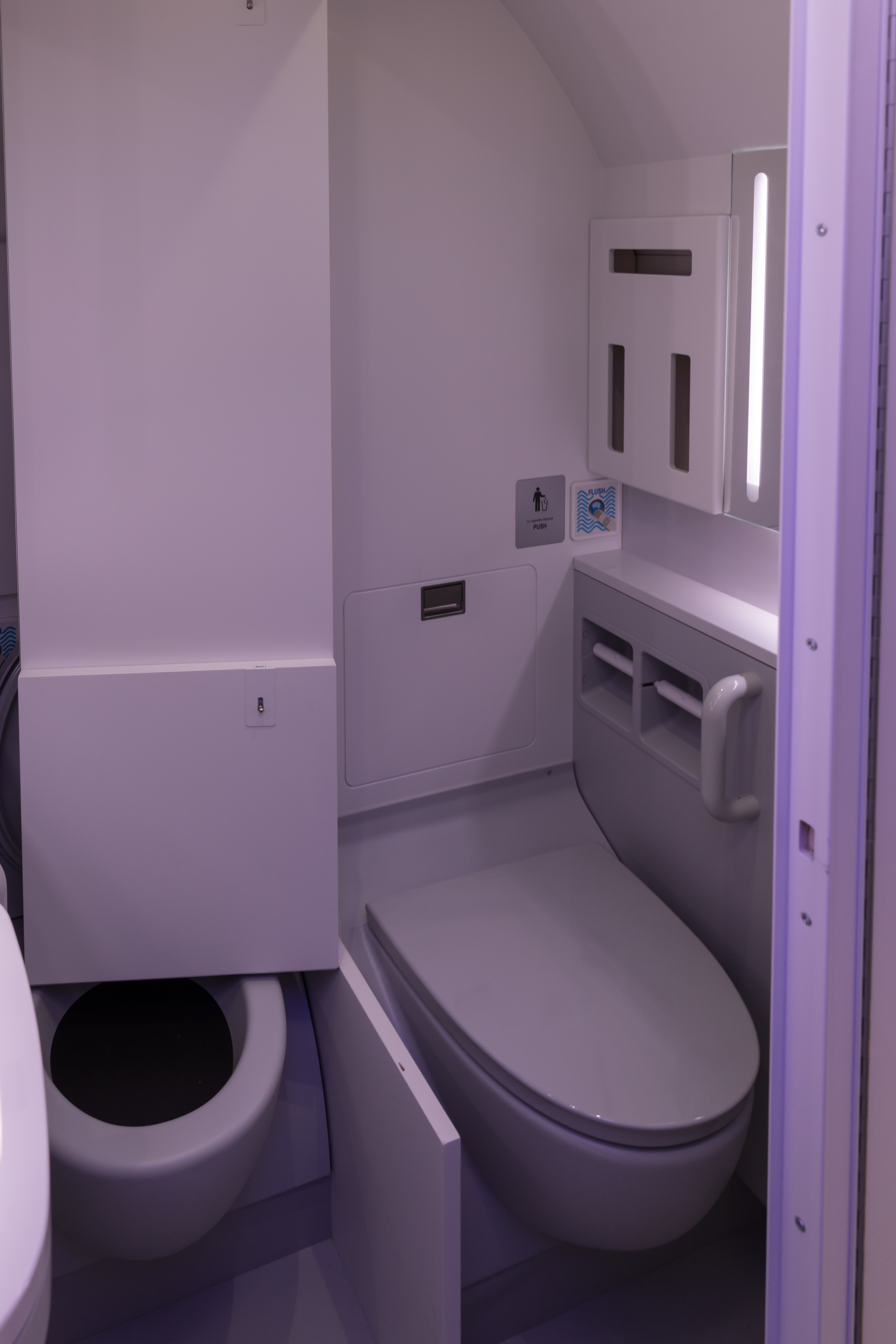 Passenger Experience Week 2018, Hamburg